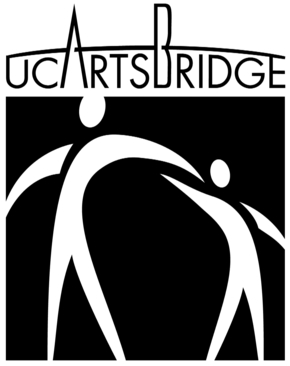 The ArtsBridge logo created for the expansion of ArtsBridge from the campus of UC Irvine to all campuses of the University of California.